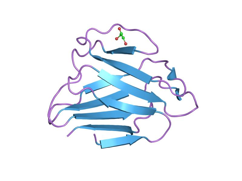 Cartoon representation of the molecular structure of protein registered with 1ifr code.